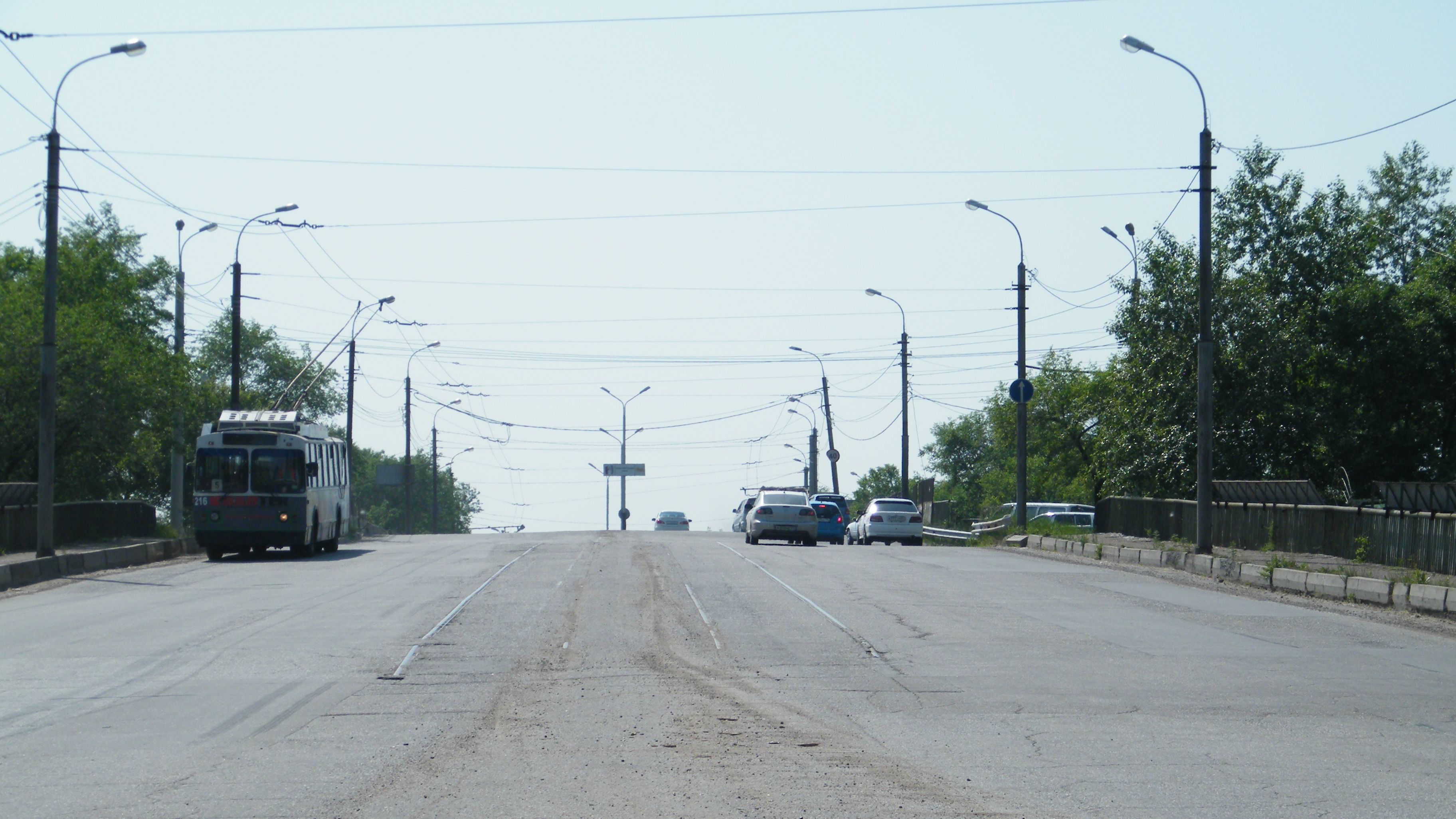 Trolleybuses in Khabarovsk